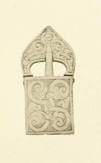 Artefact from Lewis Chessmen hoard. Buckle